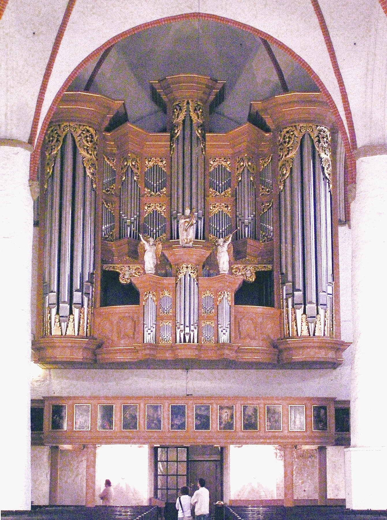 Arp-Schnitger-organ in the church of St. Jacobi, HamburgThis is a photograph of an architectural monument.